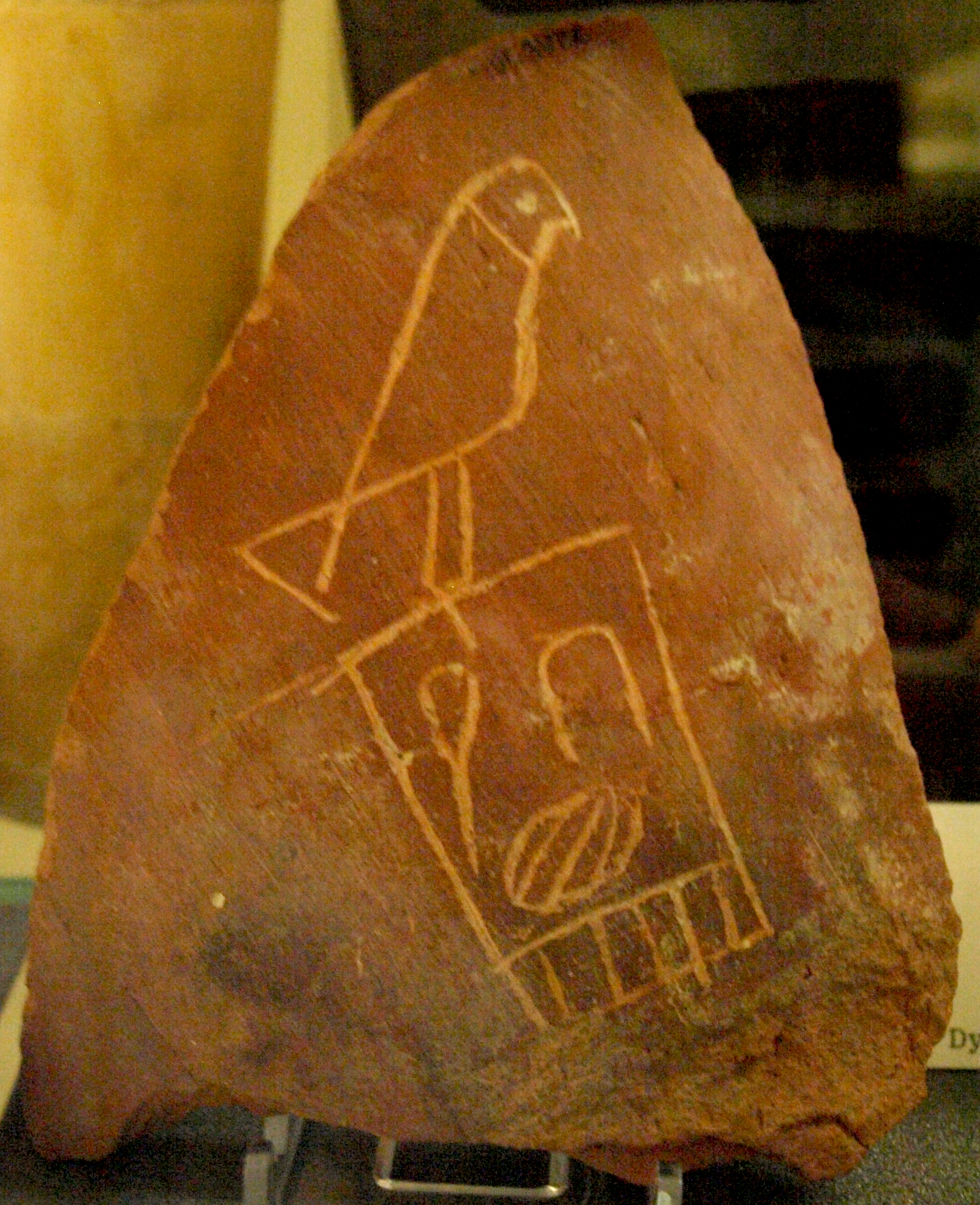 Pottery sherd inscribed with serekh of Semerkhet, originally from the tomb of Qa'a. UC 36756.